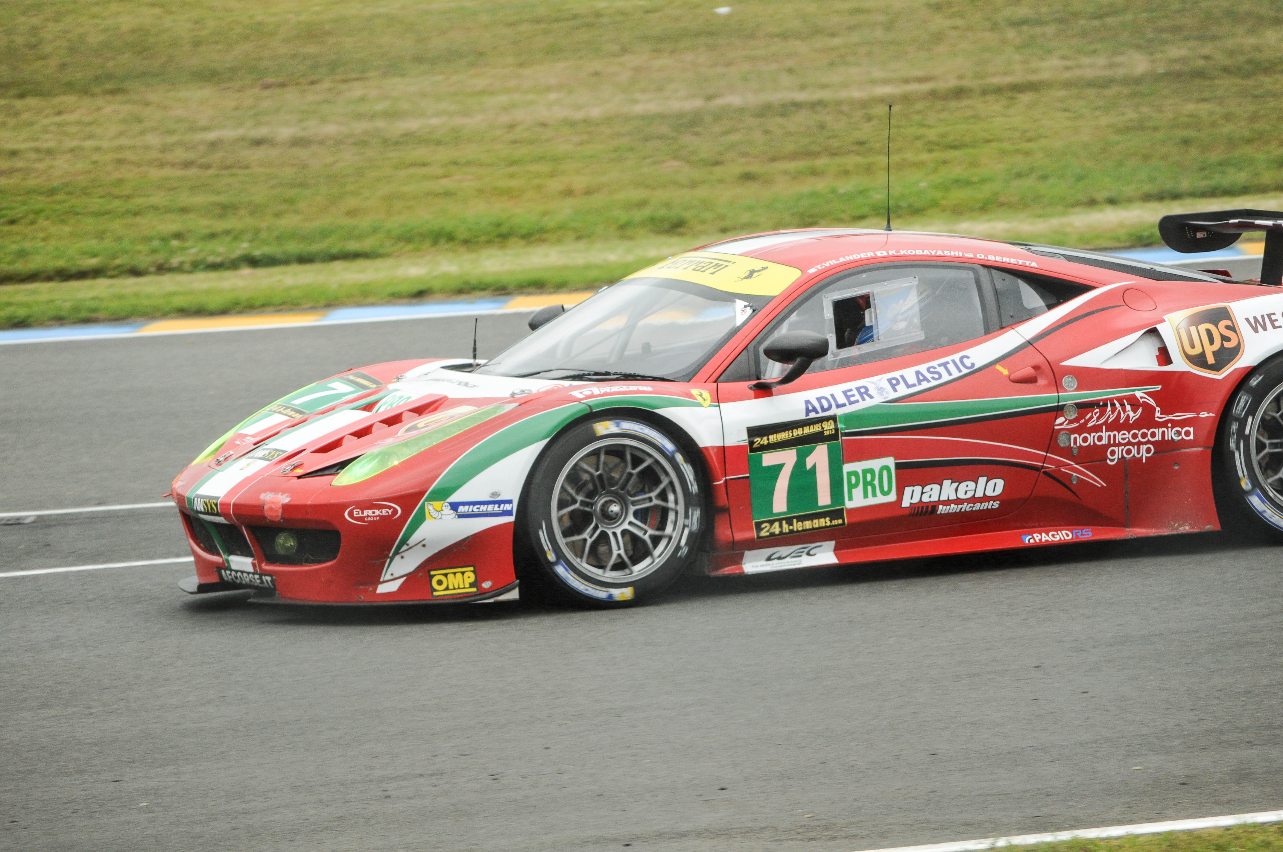 Le Mans 2013 (128 of 631)